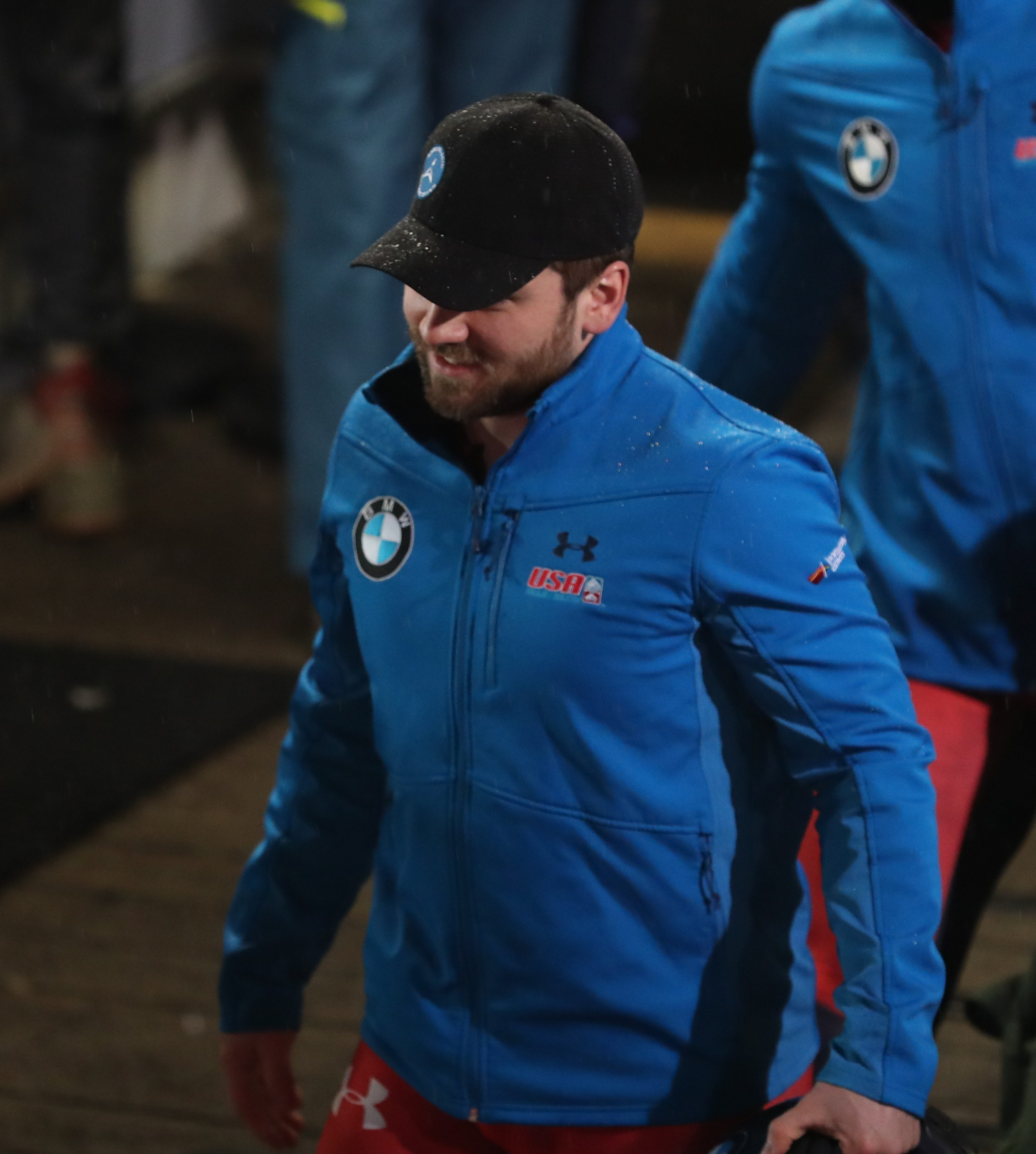 2-man Bobsleigh Men's World Cup race at the 2018/19 Bobsleigh World Cup in Altenberg